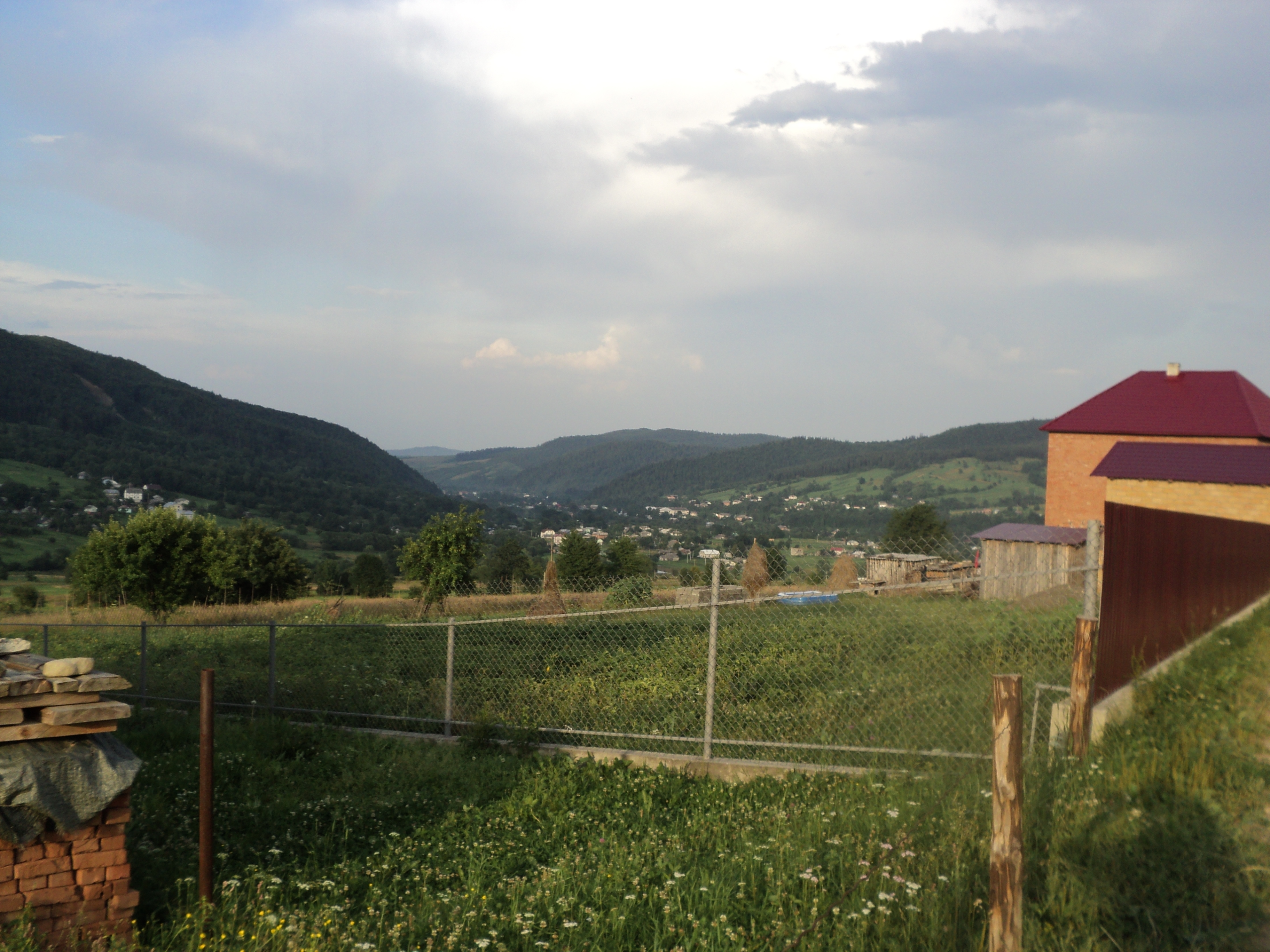 Manyava of dirt road on Krychkа